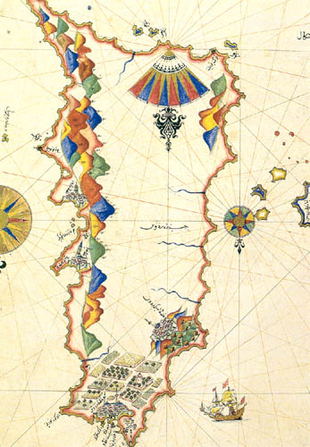 Portalan map of Rhodes, from the 1526 maritime guide book Kitab-i Bahriye of Ottoman admiral Piri Reis. Original located at the Istanbul University Library.